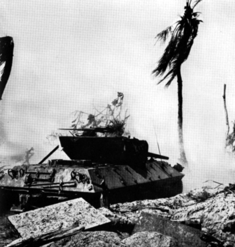 Gun motor carriage M10 blasts pillboxes on Kwajalein